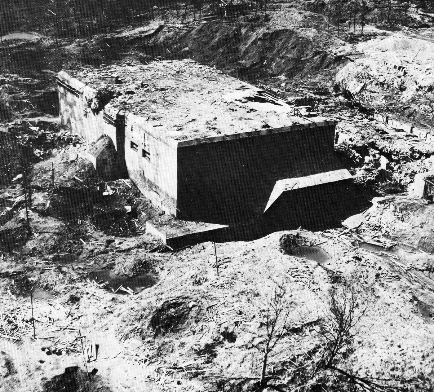 Aerial view of the bunker at Watten, France (now known as Le Blockhaus). 1944 or 1945.